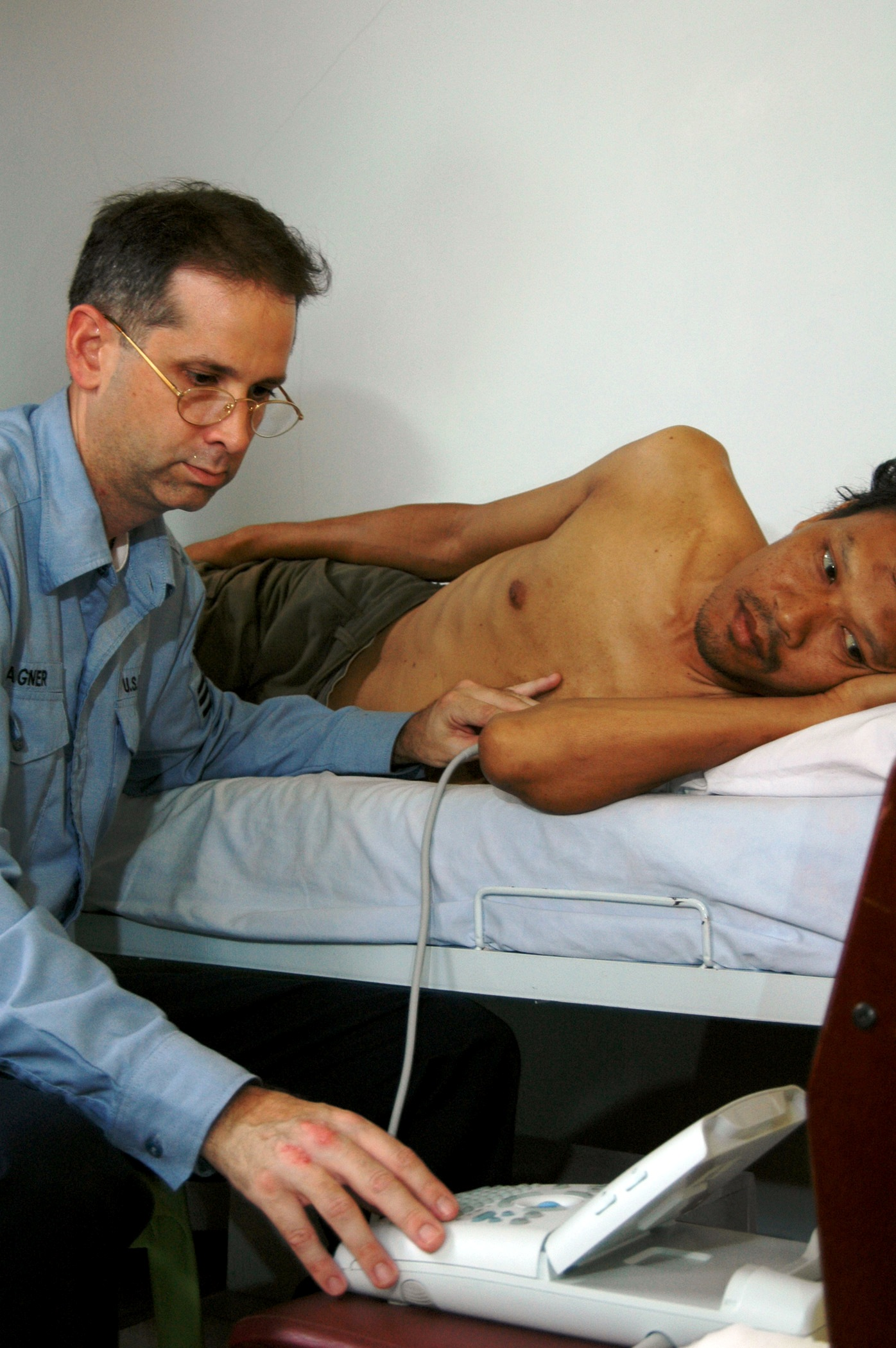 A physician performs an ultrasound examination on a indonesian man at the provincial hospital in Tarakan, Indonesia, during a humanitarian assistance visit August 12th, 2006.